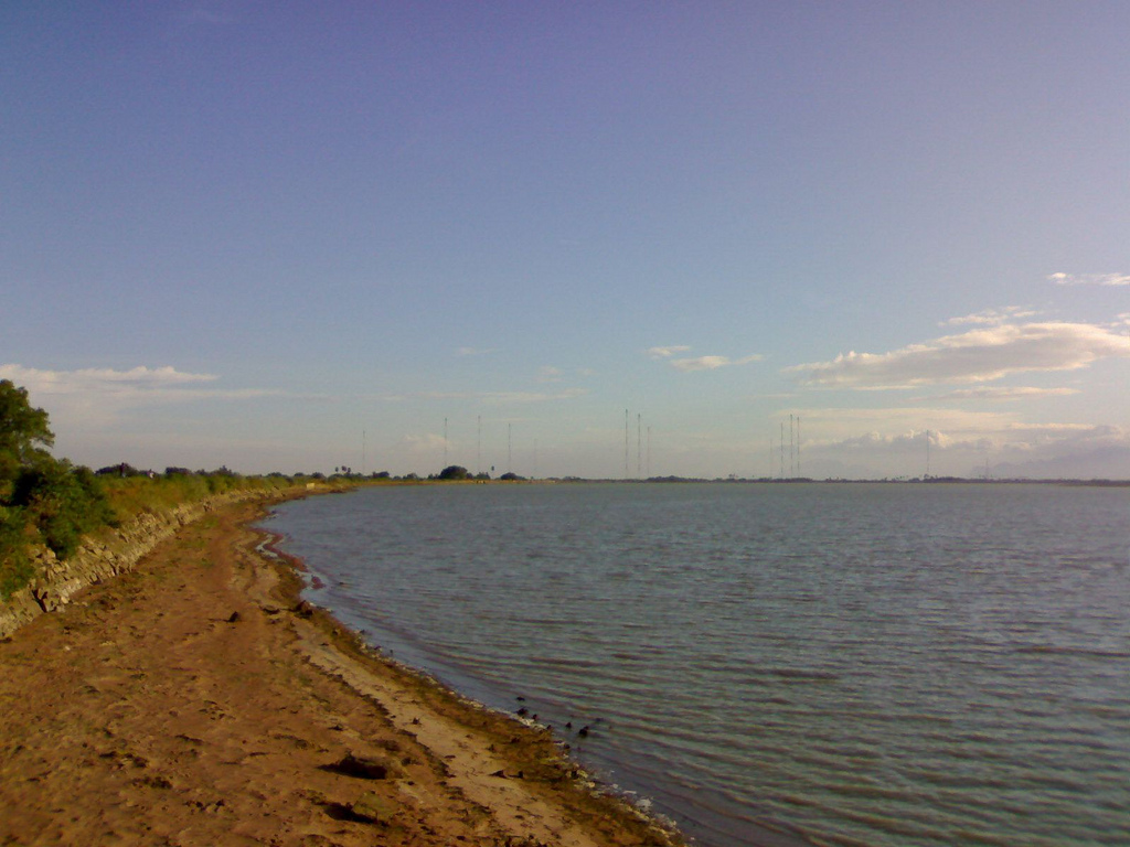 Indian navy VLF (Very Low Frequency) Transmitting Station and communications network